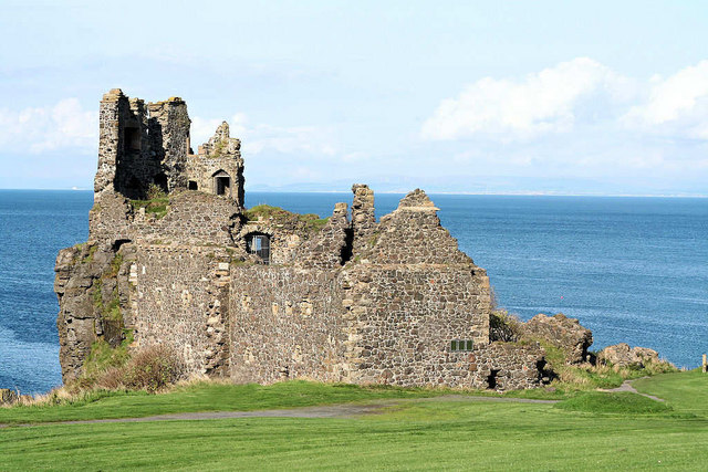 Dunure Castle. There is a lot of history attached to this Castle with some really grisly goings on. Well worth some research....